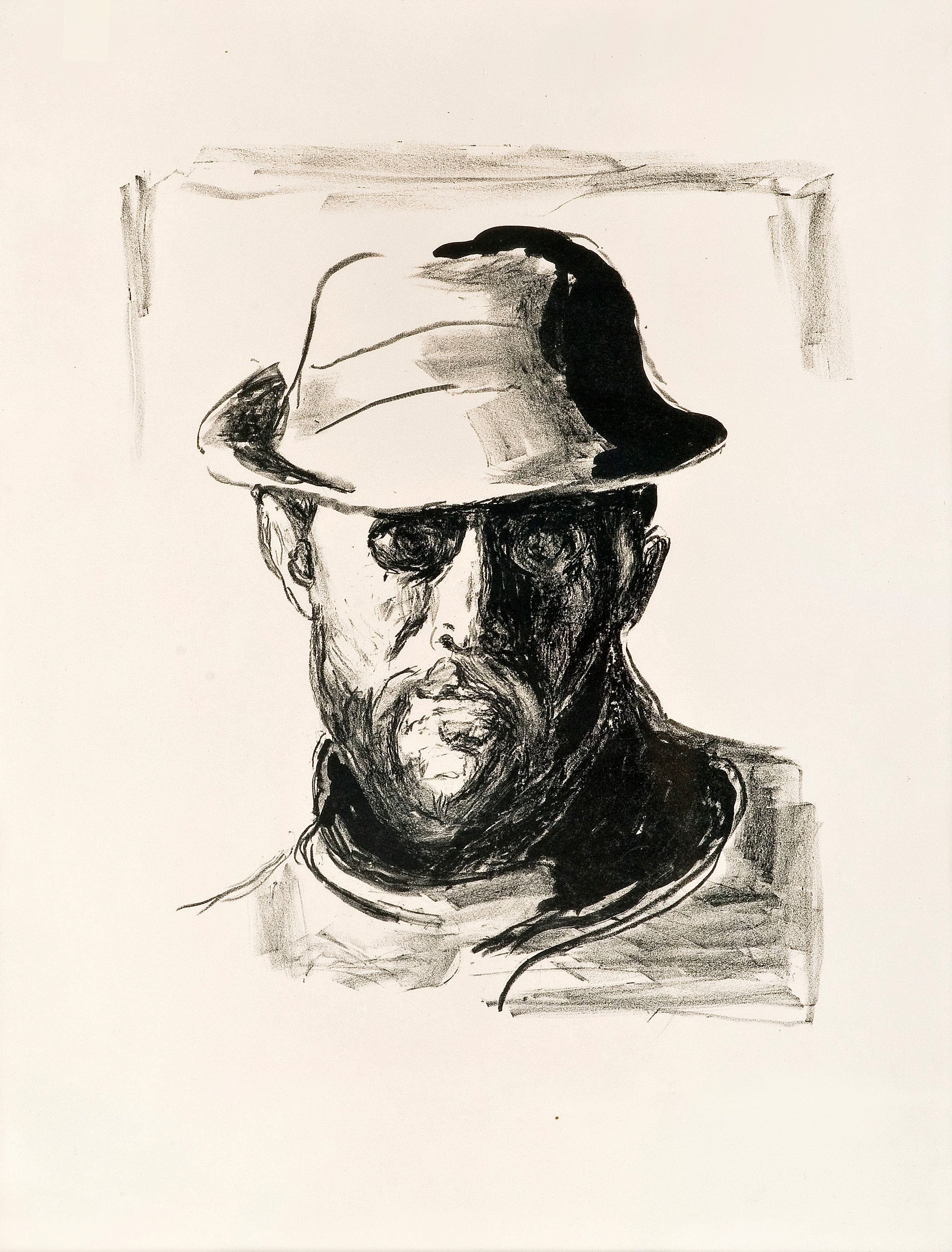 Portrait of Hans Jaeger III by Edvard Munch, lithograph, 1943-44